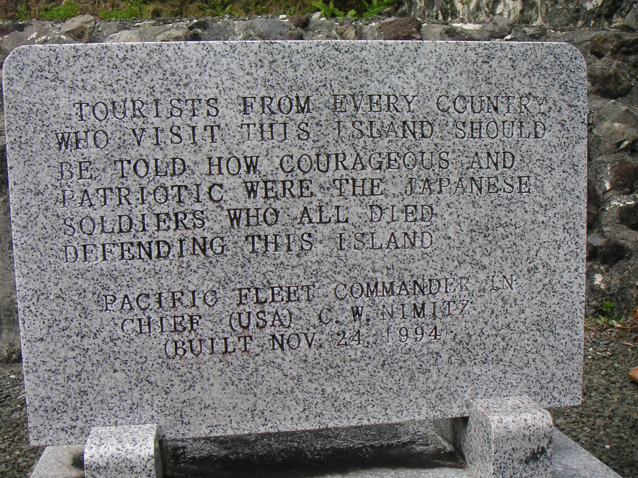 This is text of C.W.Nimitz at the Peleliu island, Palau.